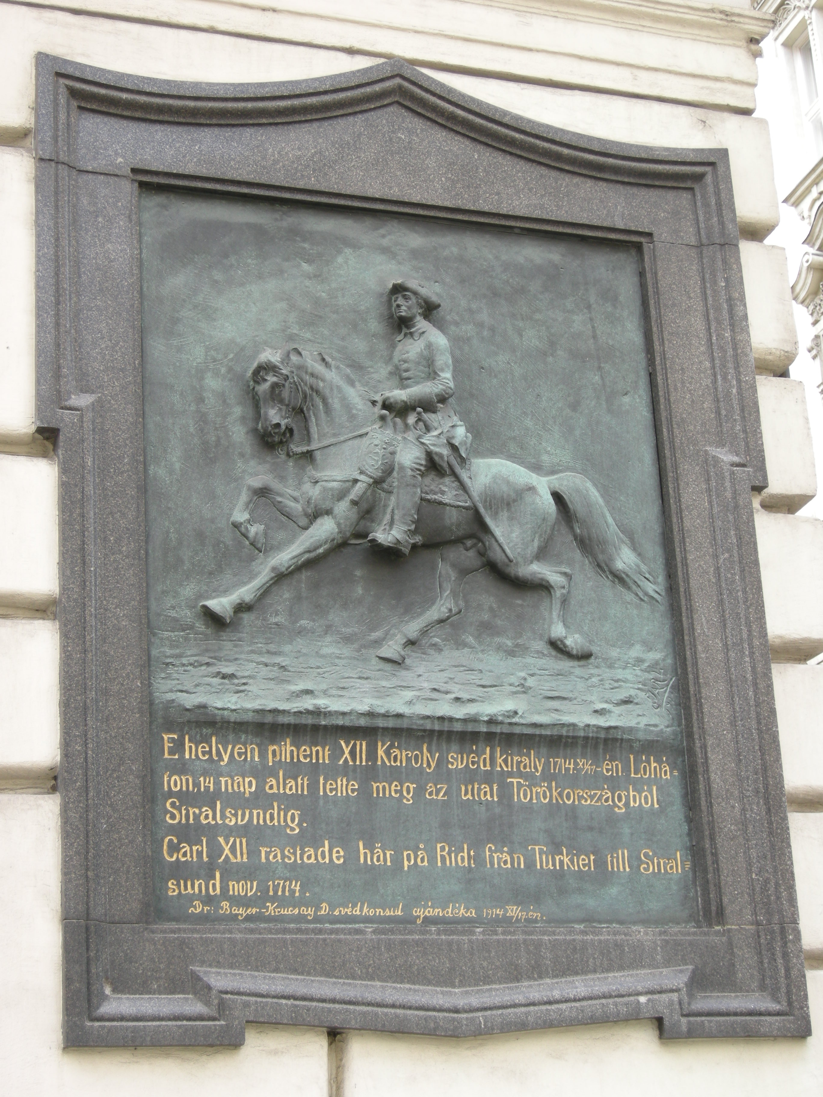 Commemorative plaque of Charles XII of Sweden in Budapest. (Budapest, V. kerület, Váci utca 43.)